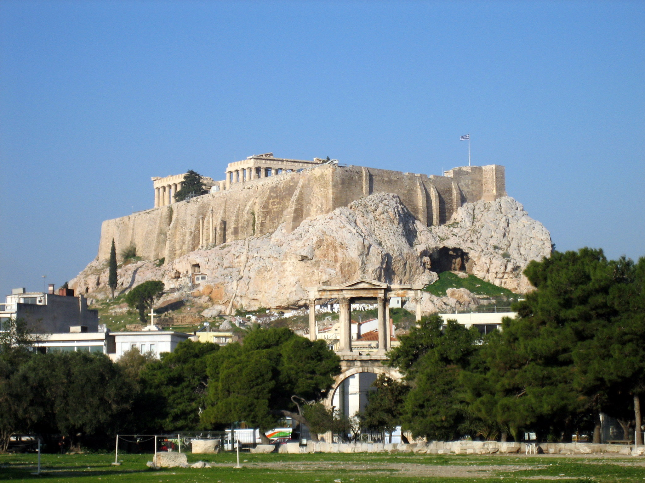 Acropolis viewing from Temple Of Zeus